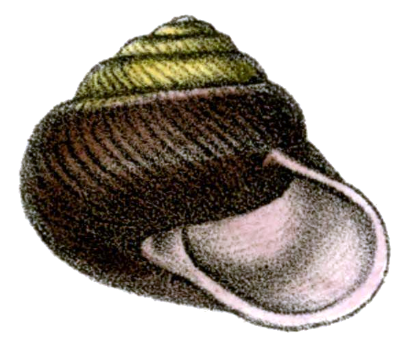 drawing of apertural view of the shell of Pommerhelix monacha, synonym: Helix (Badistes) monacha